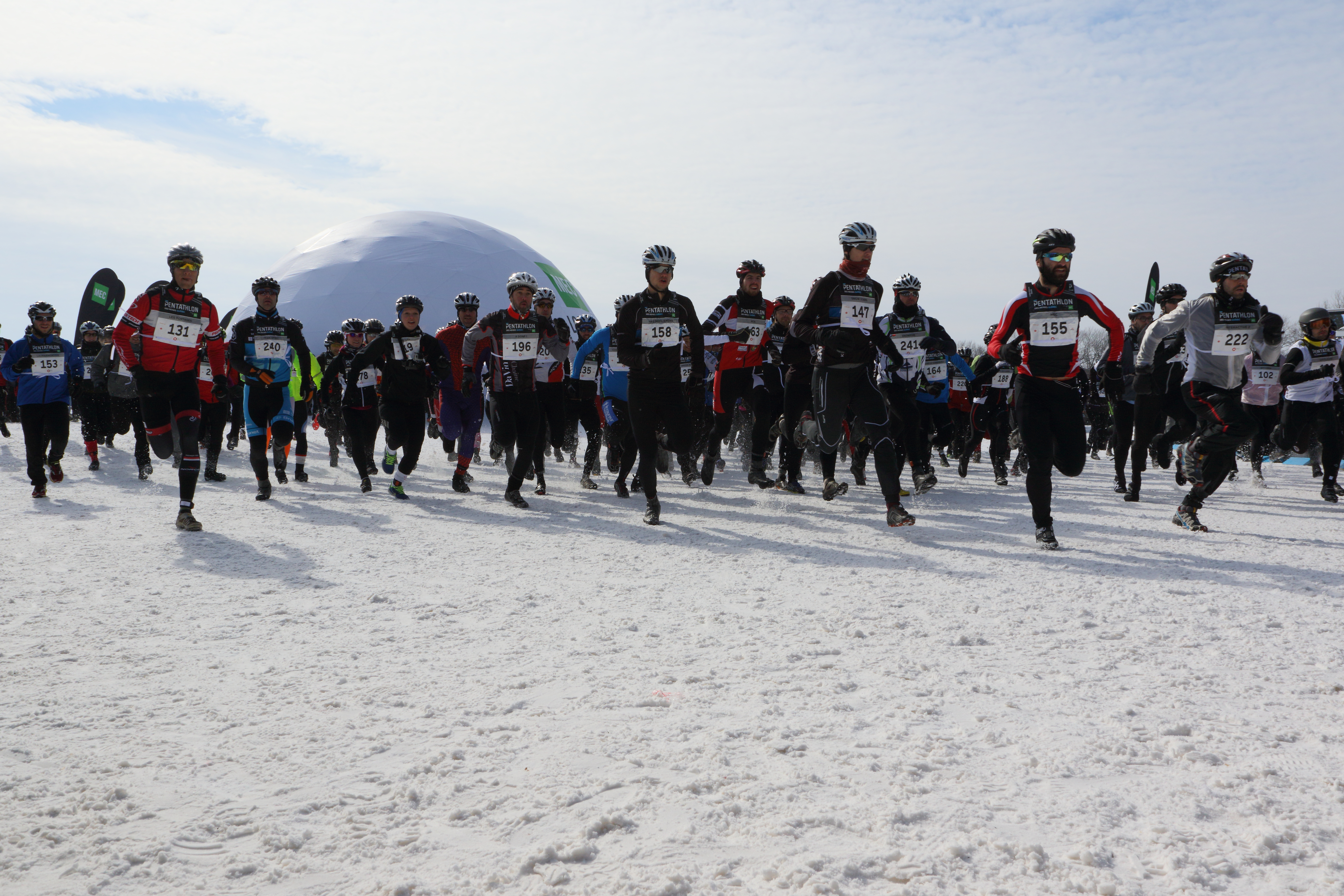 "Snow pentathlon", Québec city, Canada